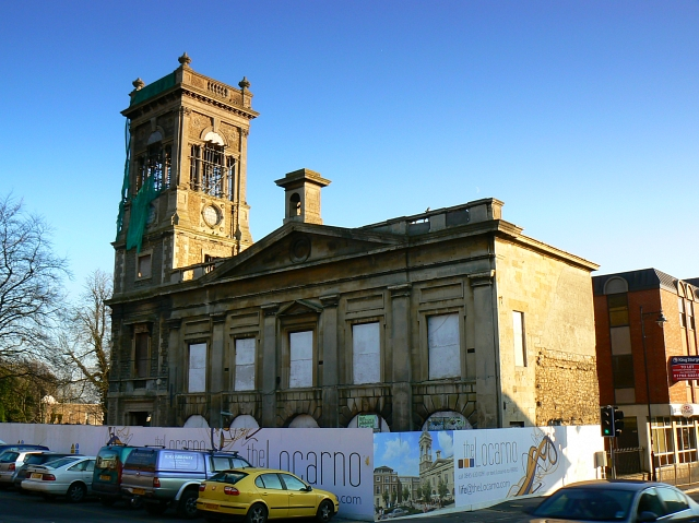 Former Town Hall, The Square, High Street, Swindon. The Grecian Town Hall was built 1852–54 and the Italianate tower (left) and Corn Exchange (behind the tower, not visible) were added 1866. In subsequent decades the building was a cinema, dance hall, wine merchant and bingo hall. It has been disused since the 1980s and more recently has undergone arson attacks.